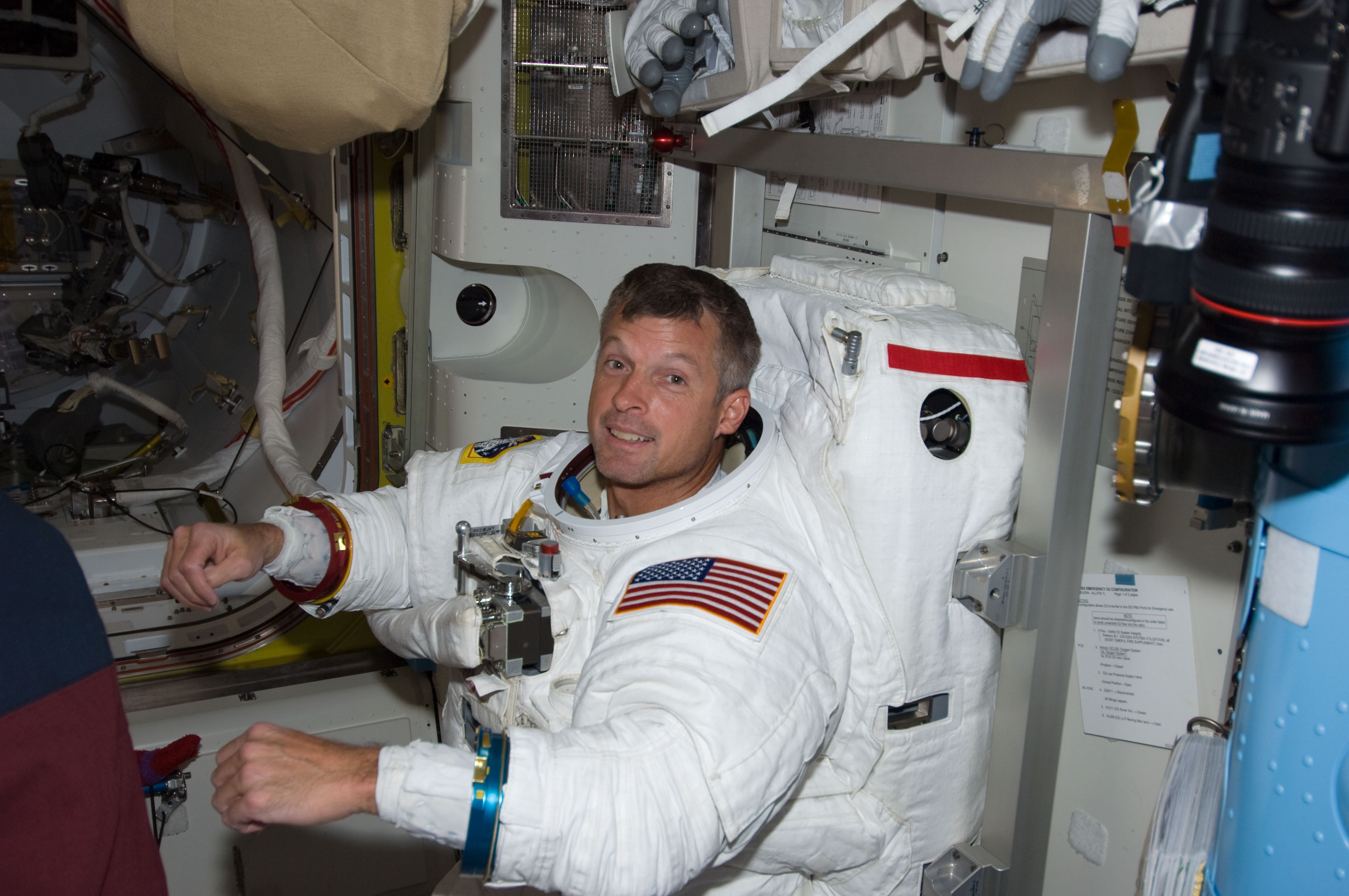 Astronaut Steve Swanson, STS-119 mission specialist, attired in his Extravehicular Mobility Unit (EMU) spacesuit, is pictured in the Quest Airlock of the International Space Station as the mission's second session of extravehicular activity (EVA) draws to a close.